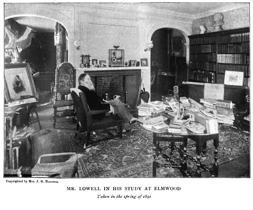 "Mr Lowell. in his study at Elmwood, taken in the spring of 1891." Photograph depicts the American poet and professor James Russell Lowell in his study at Elmwood in Cambridge, Massachusetts. Scanned from James Russell Lowell and His Friends by Edward Everett Hale. Published by Houghton, Mifflin and company, 1899.